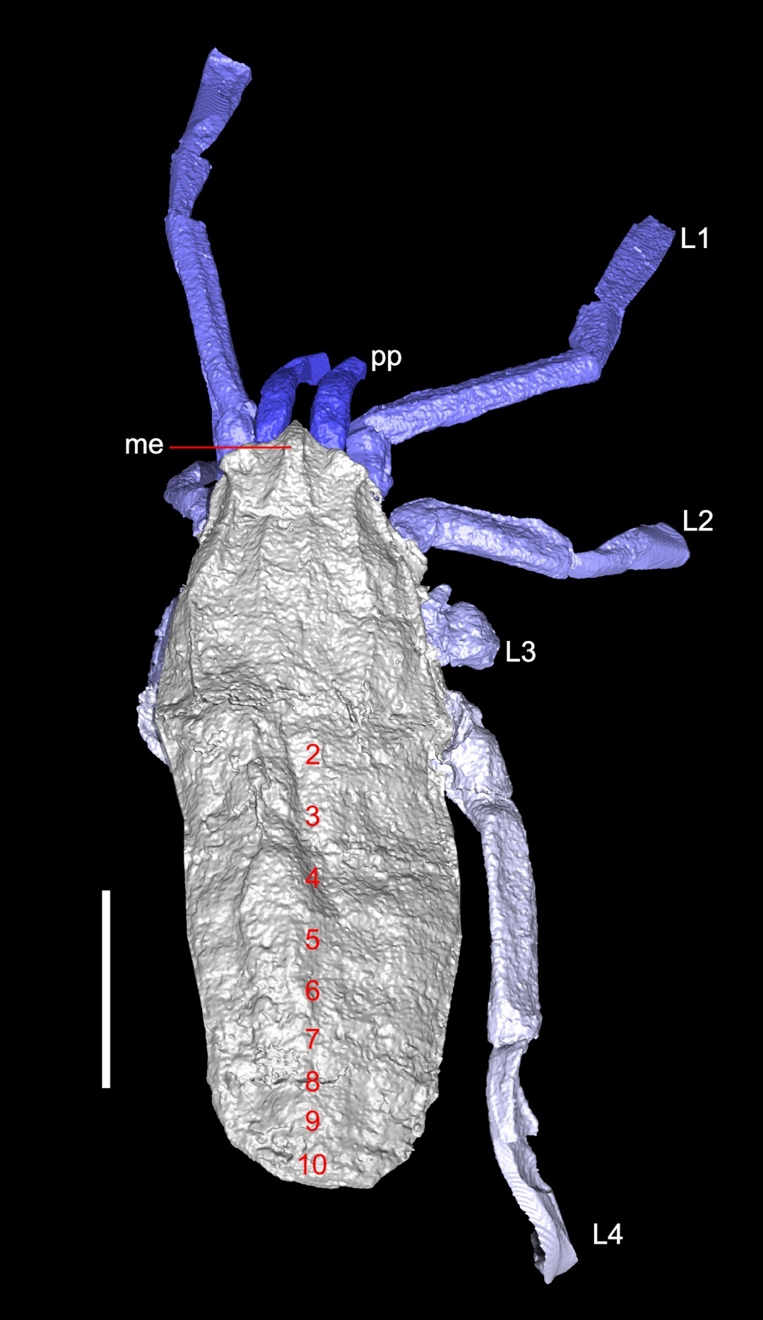 Digital visualisations of the haptopod Plesiosiro madeleyi (NHM I7923). Dorsal view, showing opisthosomal segmentation and prosomal shield architecture. Abbreviations: 1–10, opisthosomal segment number; as, anterior sclerite; ch, chelicerae; cx, coxa; fa, fang; fe, femur; L1–L4, walking legs 1–4; me, media eyes; pp, pedipalps. Scale bar = 3 mm